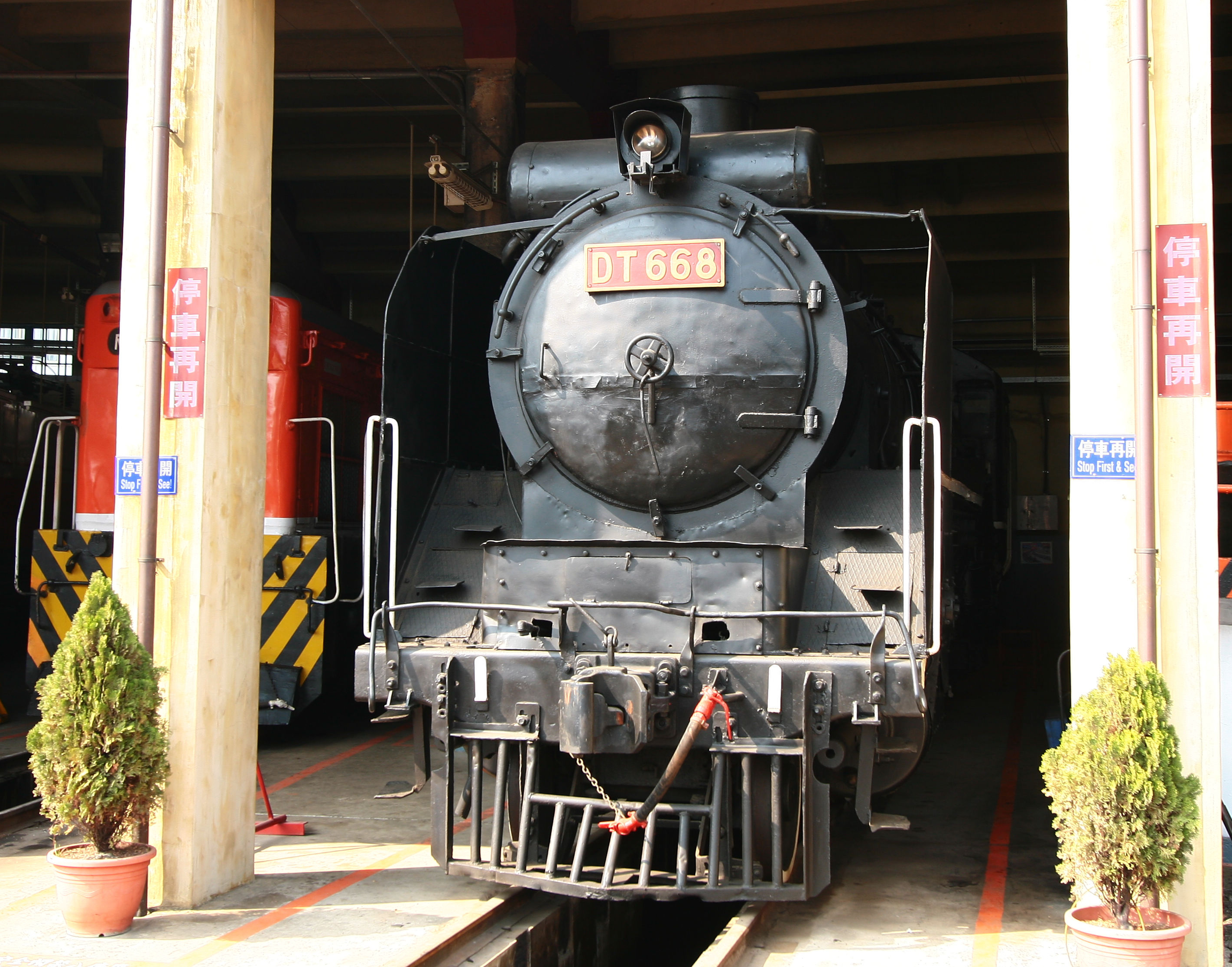 Taiwan Railway Administration Steam Locomotive DT668 at Changhua Roundhouse.